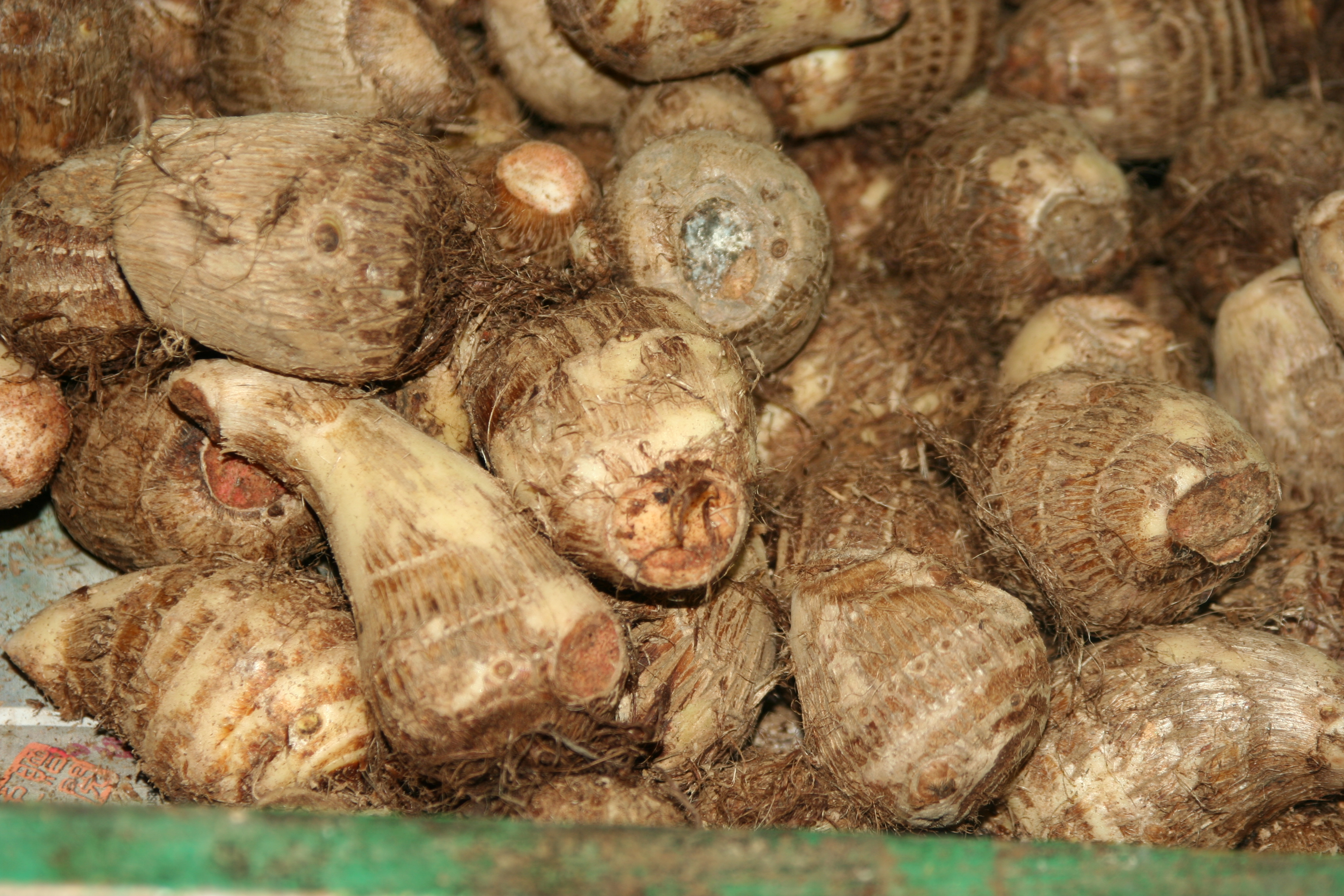 Taro root for sale at California market, ChildofMidnight, please attribute